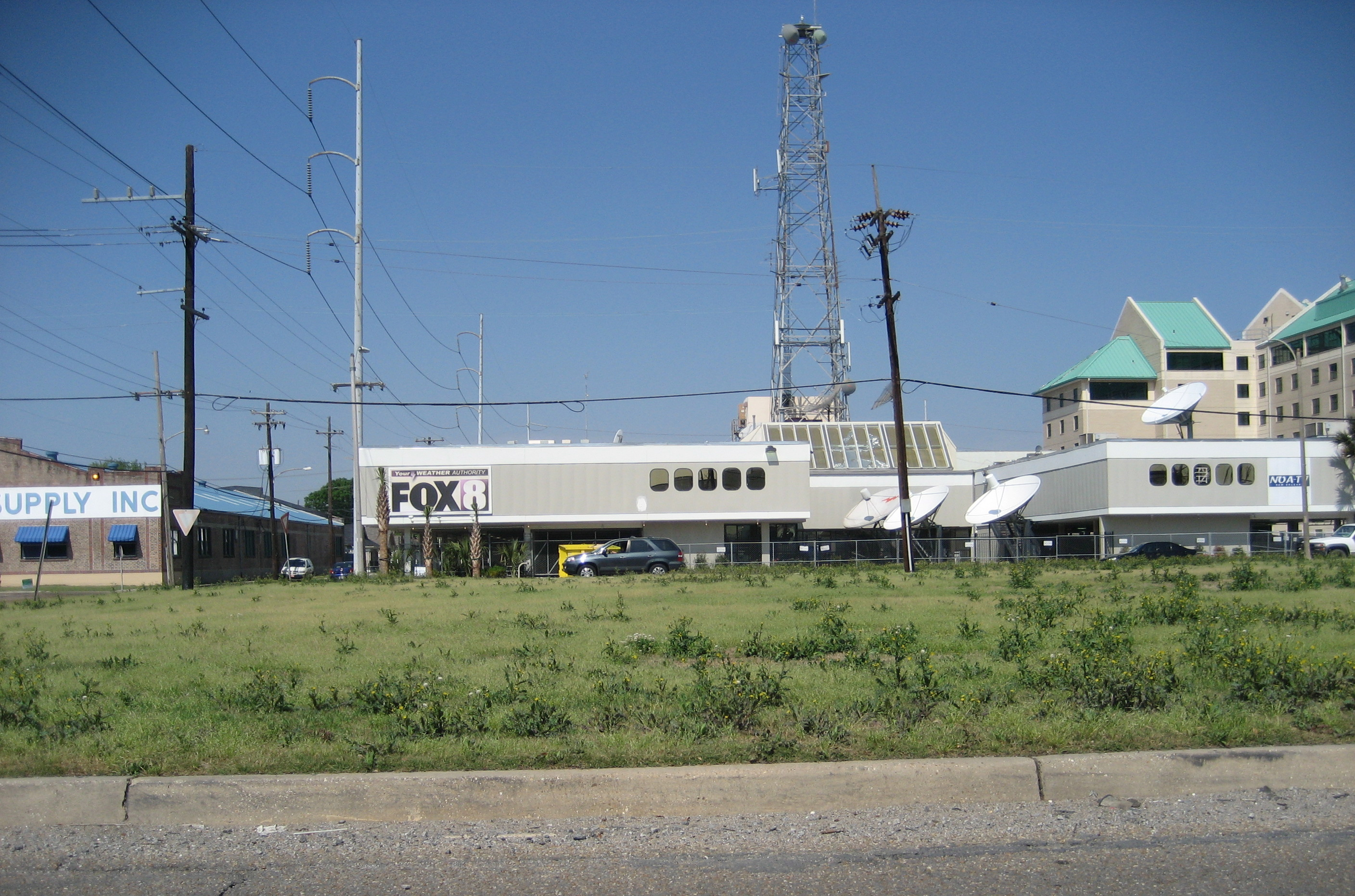 TV studios for Fox 8, Davis Parkway, New Orleans Photo by Infrogmation, March 2007